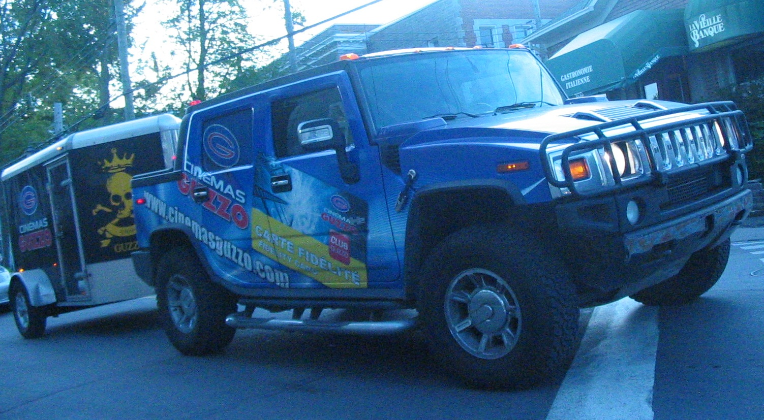 Hummer H2 SUT Cinémas Guzzo photographed in Laval, Quebec, Canada.